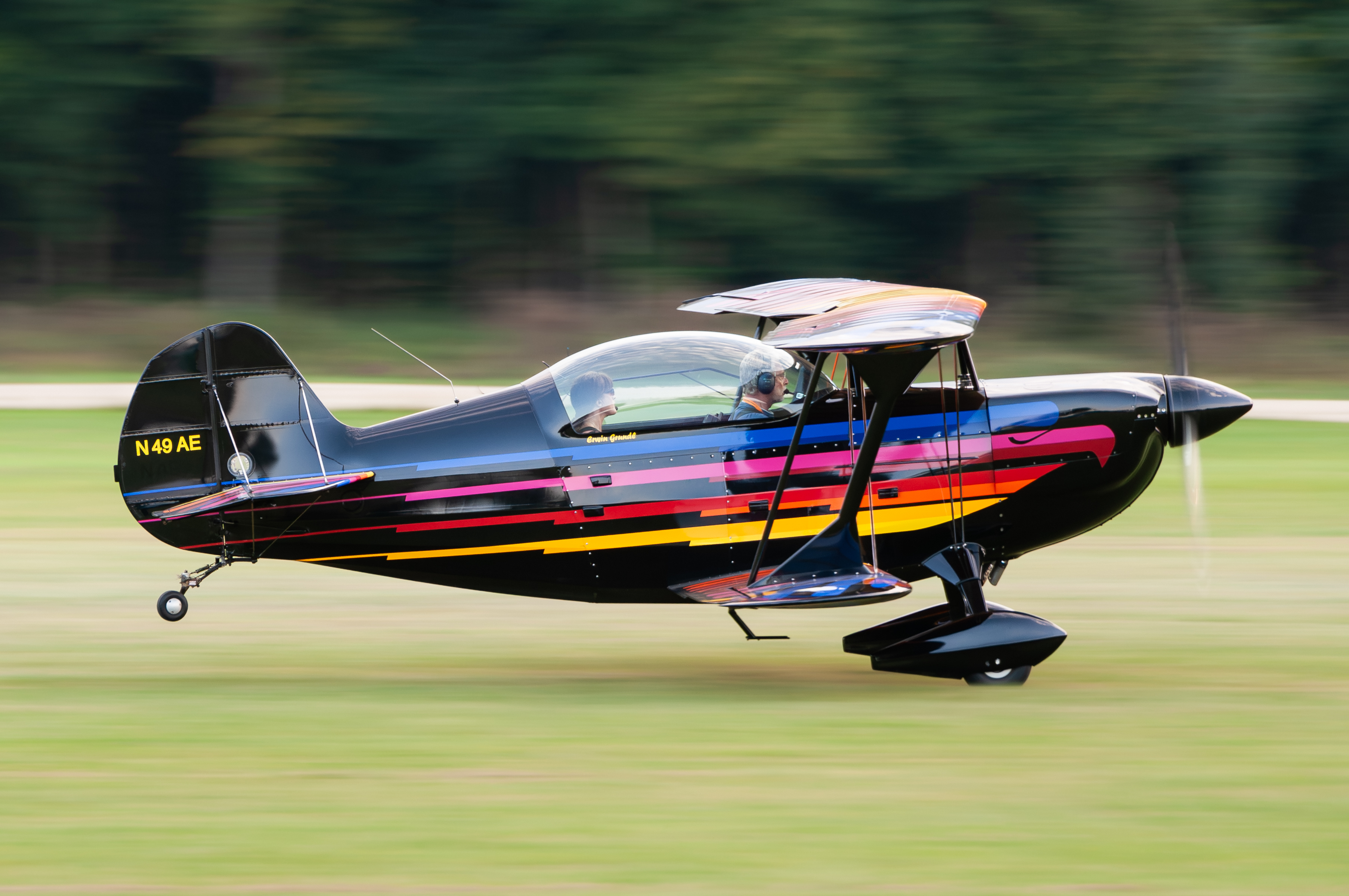 Christen Eagle II, Registration: N49AE during takeoff at the "Oldtimer Fliegertreffen" Hahnweide 2011 (EDST) This photo was taken at the 16th Oldtimer Fliegertreffen Hahnweide from September 2 to 4, 2011.